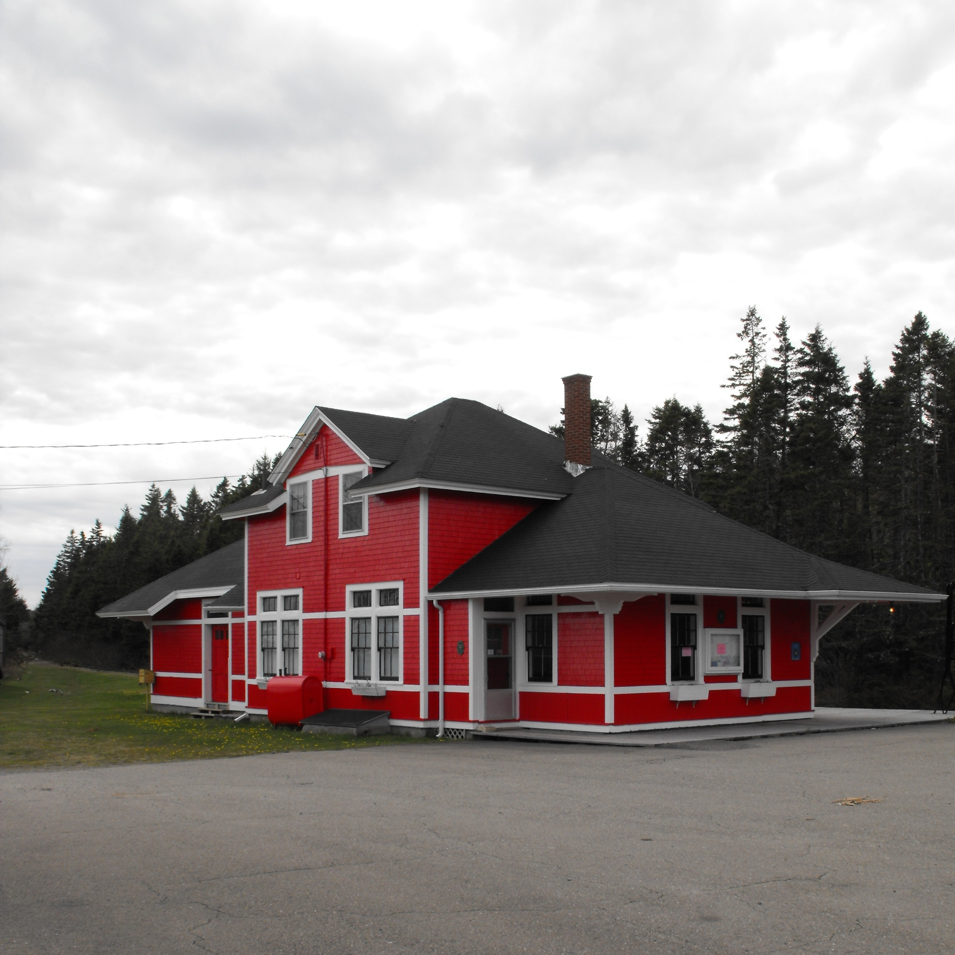 Musquodoboit Harbour (Nova Scotia) railway station, built 1918; now a museum.